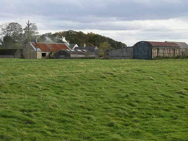 Rudchester Farm Seen from Hadrians Wall National Trail As the "-chester" suffix implies, of Roman origin; Vindobala Roman Fort on Hadrian's Wall lies only a short distance away. Additional note: In fact the slightly raised grassy area on the left side of the picture is probably part of the fort site.